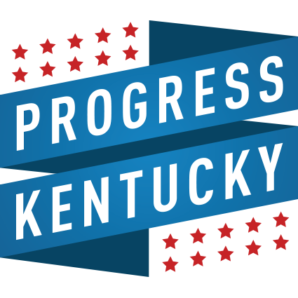 This is the logo used by Progress Kentucky, a SuperPAC formed in December 2012 to oppose the re-election of Sen. Mitch McConnell.